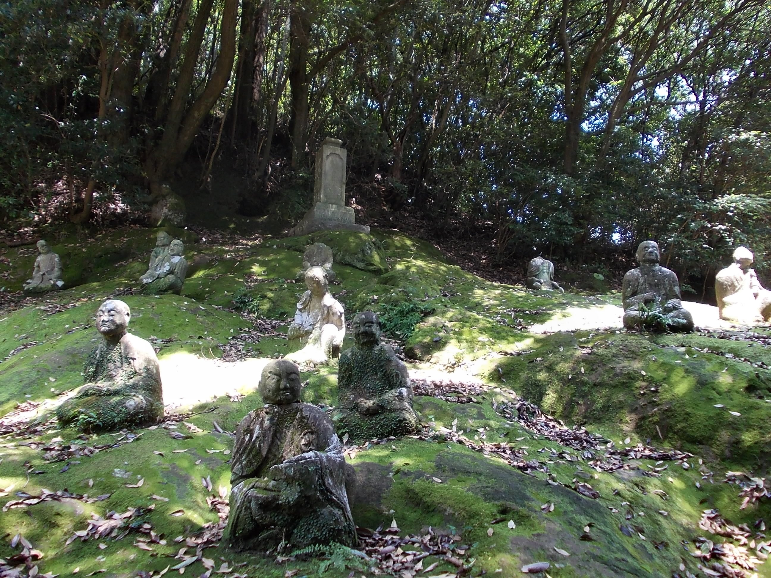 Iwato Kannon 500 Rakan Buddha statues, Nishi-ku, Kumamoto, Japan